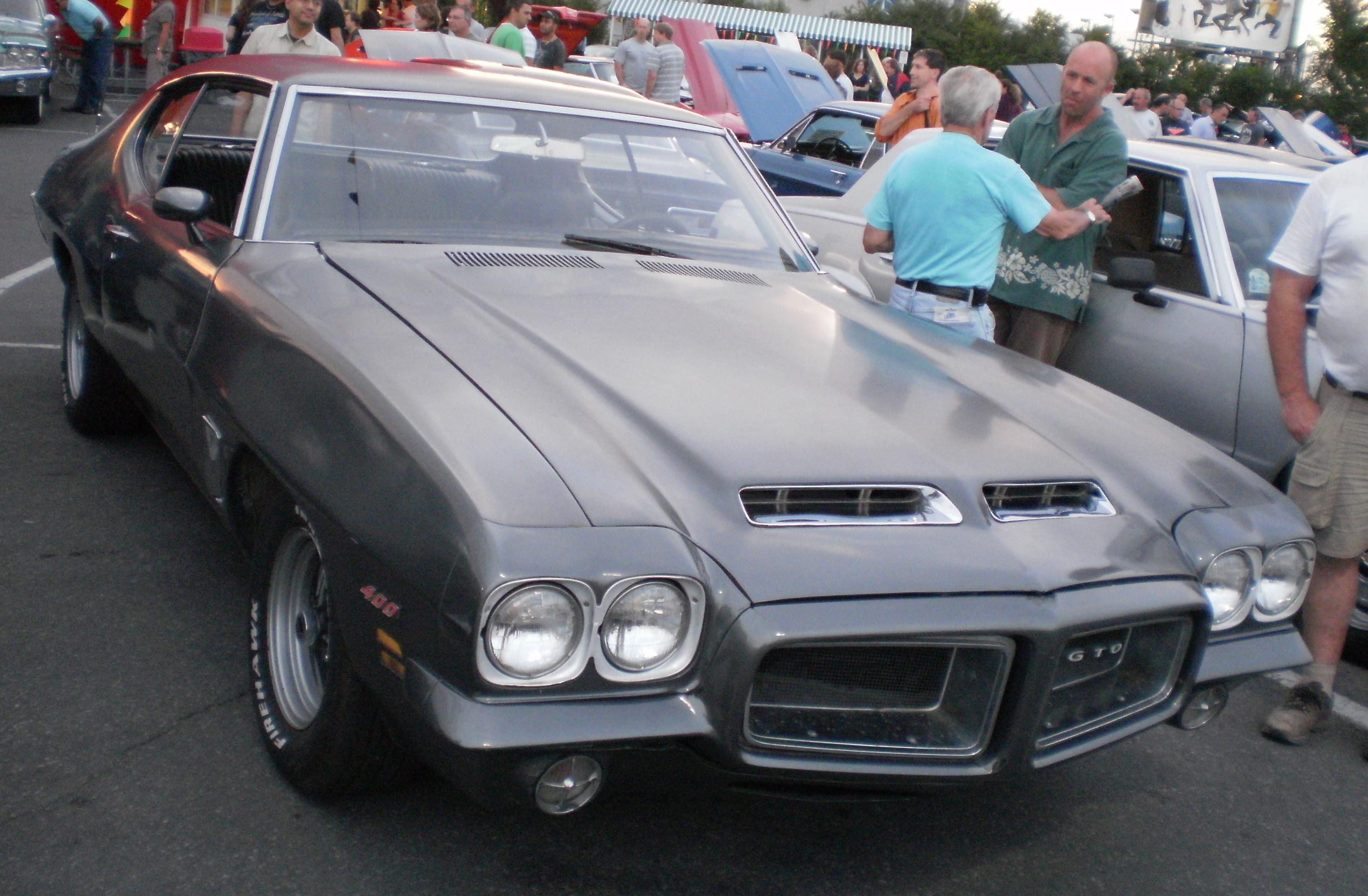 1972 Pontiac GTO photographed in Montreal, Quebec, Canada at Gibeau Orange Julep.